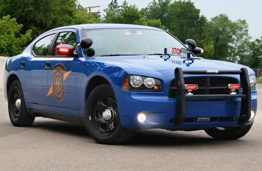 Dodge Charger police car of the Michigan State Police.